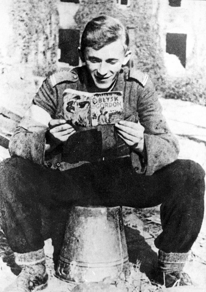 A young corporal of the Home Army reading a Flash Gordon ("Błysk Gordon") in Polish) graphic novel ("The Queen of the Blue Magic") during a lull in the fights of the Warsaw Uprising